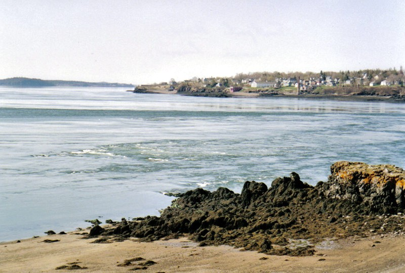 Low tide at Deer Island Point, Deer Island, N.B., Canada